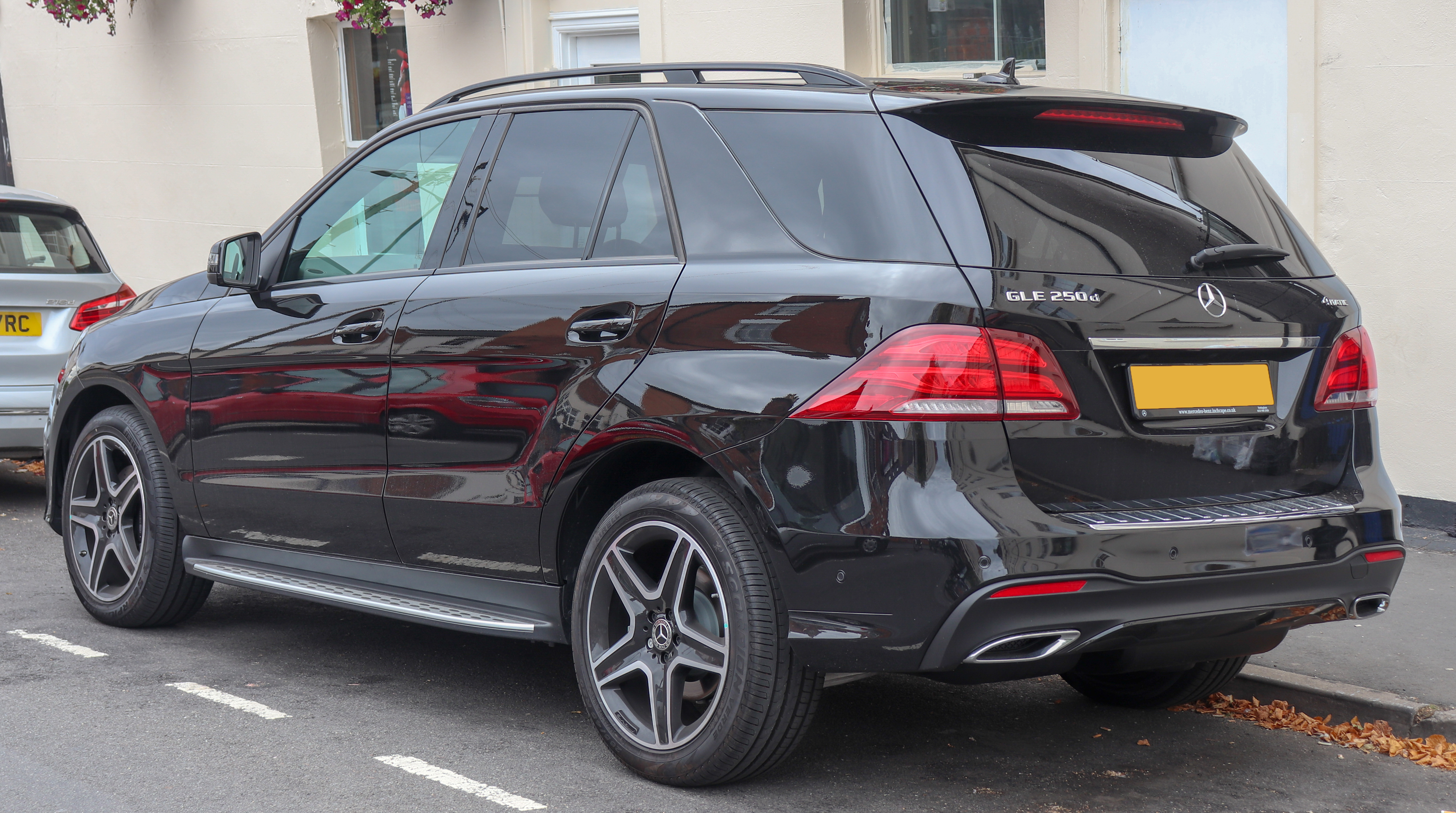 2018 Mercedes-Benz GLE 250d 4MATIC 2.1 Rear Taken in Leamington Spa